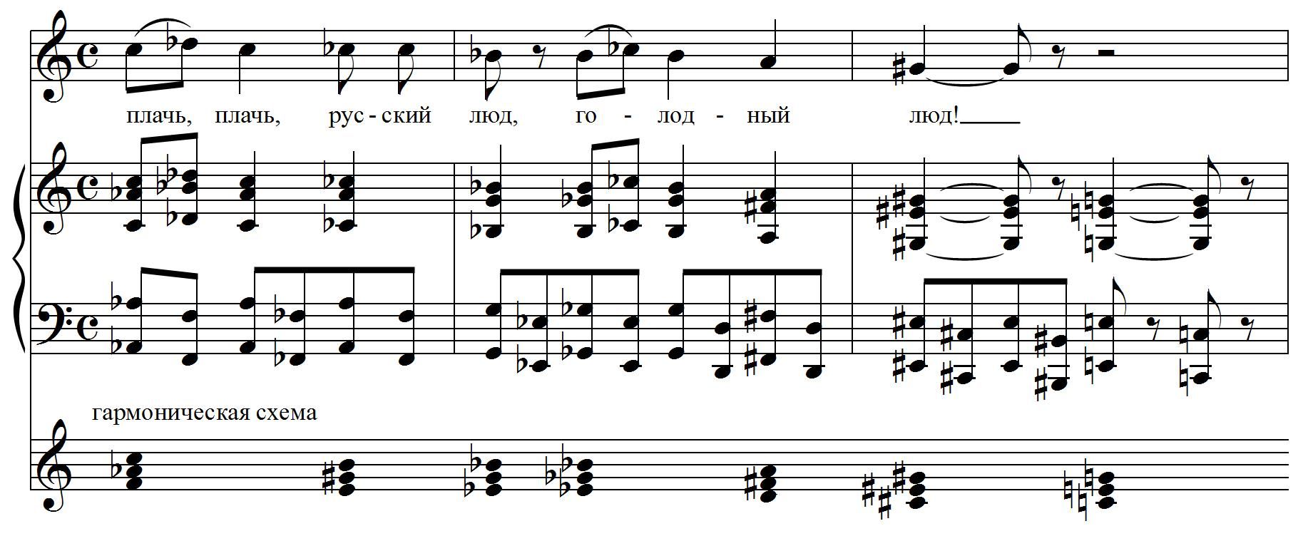 Mussorgsky. Boris Godunov, fragment. Usage of linear chords